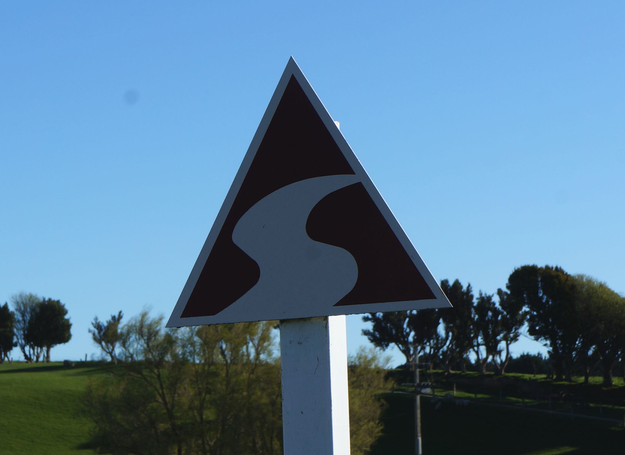 Southern Scenic Route Symbol